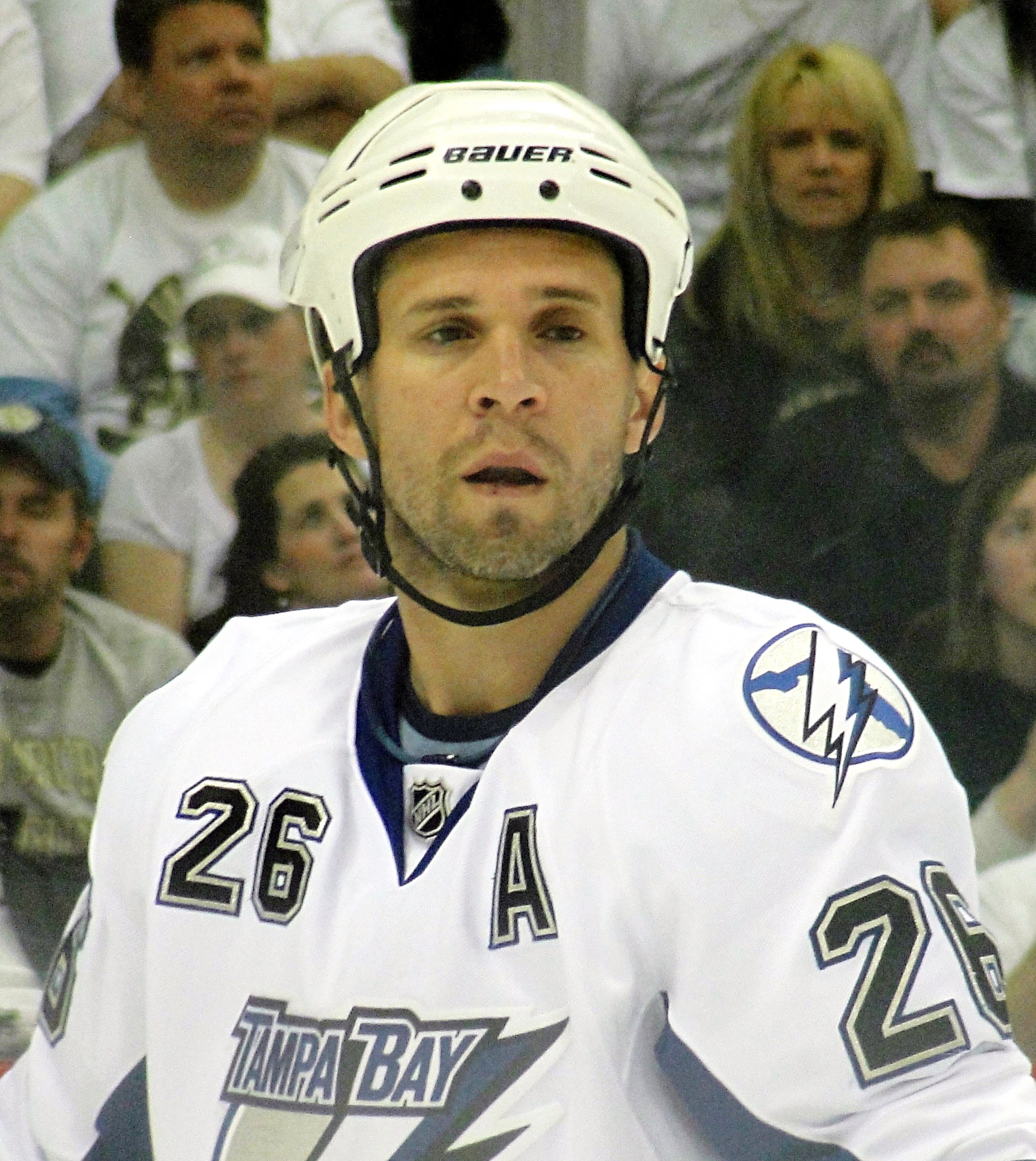 Martin St. Louis of the Tampa Bay Lightning during a 1st round playoff game against the Pittsburgh Penguins at Consol Energy Center in Pittsburgh, PA. April 15, 2011.